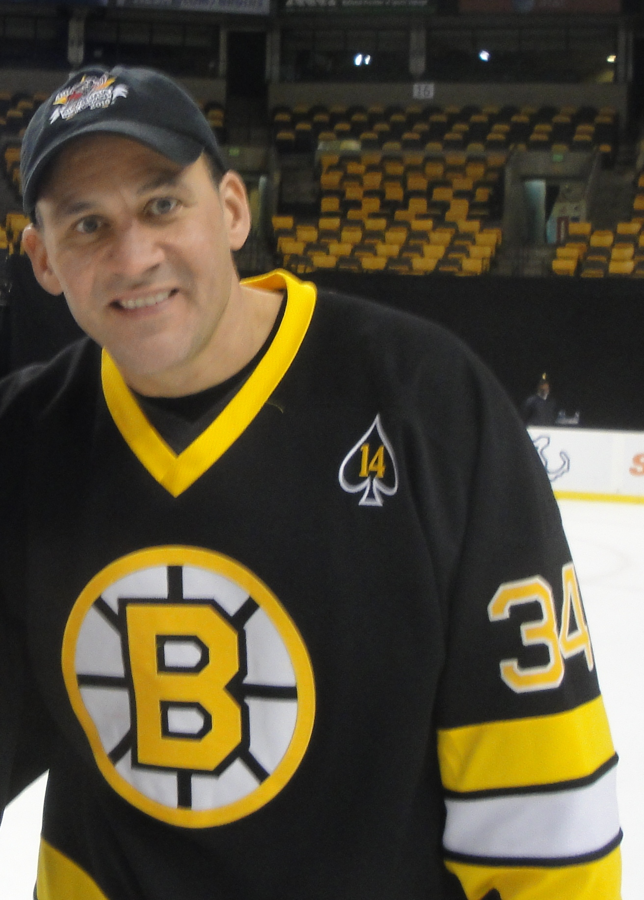 Bob Beers at the Boston Bruins Slice the Ice event on Dec 12, 2011 at the TD Garden, Boston, MA.